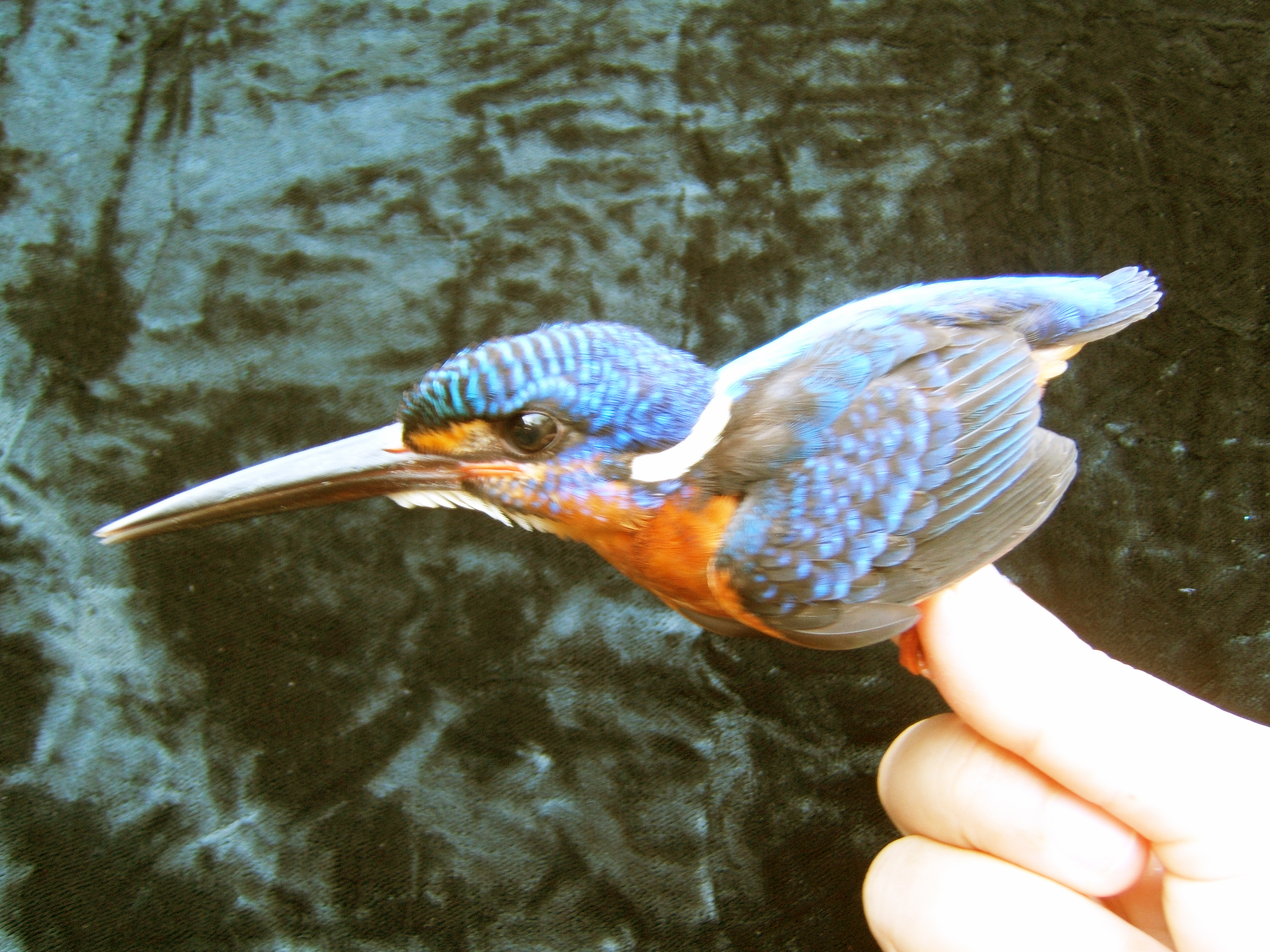 MT Abdullah. Tabdulla 10:07, 15 October 2006 (UTC)